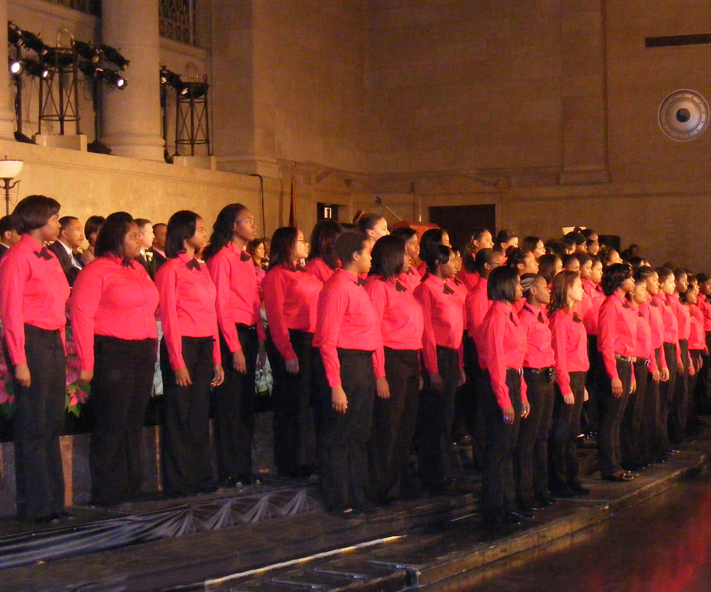 I took this picture in December of 2007.